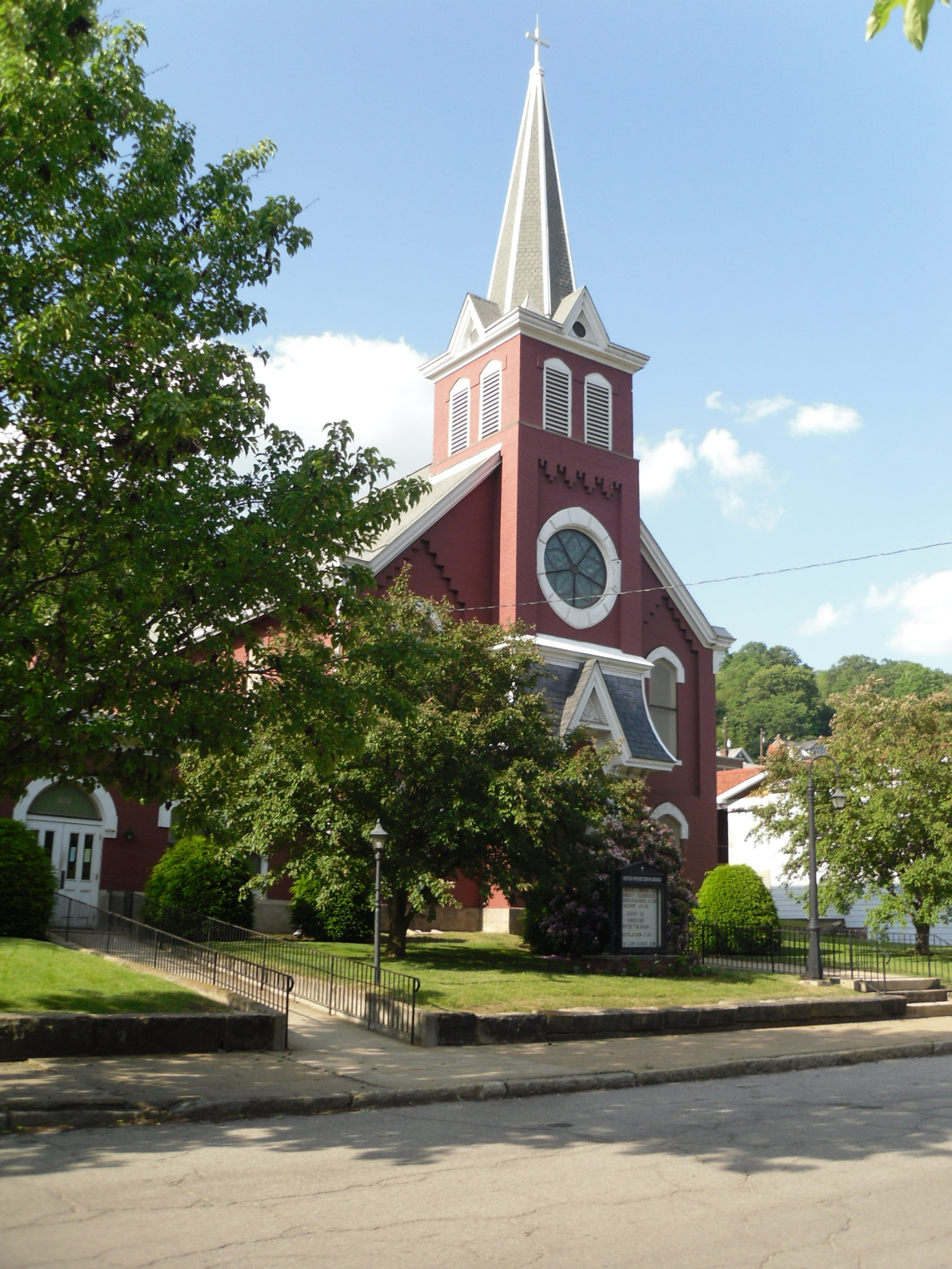 Emlenton, Pennsylvania. Presbyterian Church for a pre-1923 view see Emlenton PA Presby PHS202.jpg